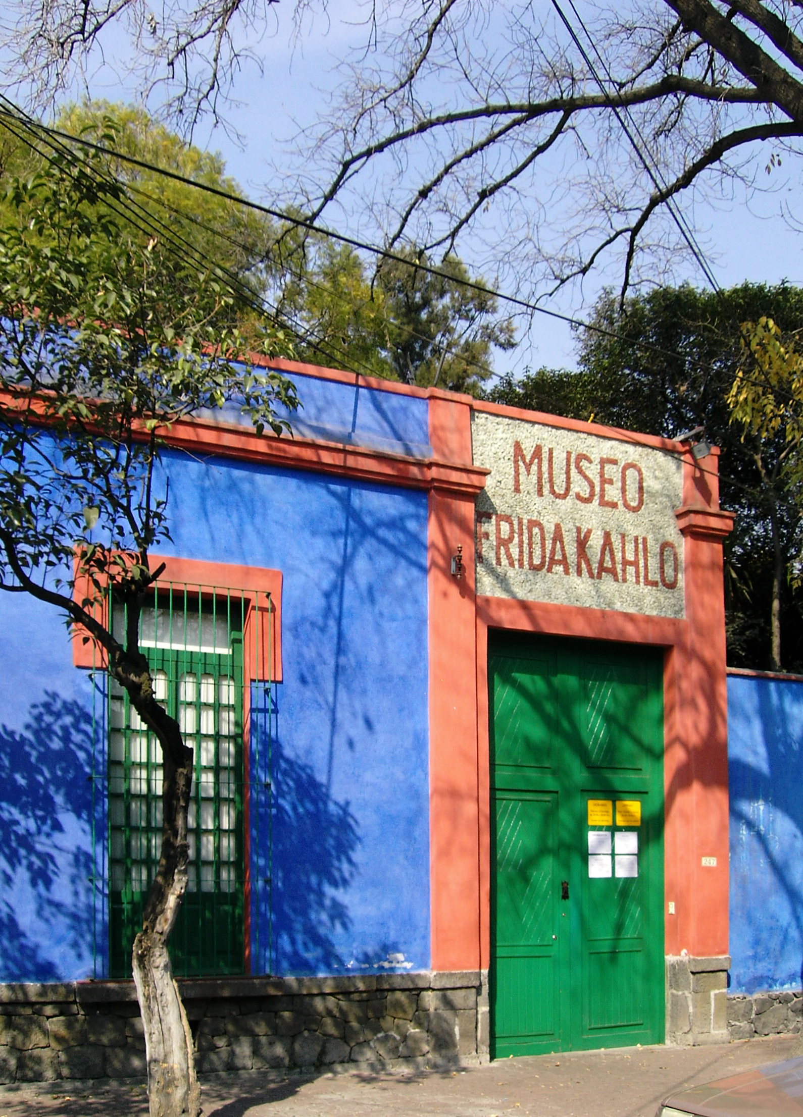 The blue House in Coyoacan, where Frida Kahlo and Diego Rivera lived from 1929-1954, now a Museum